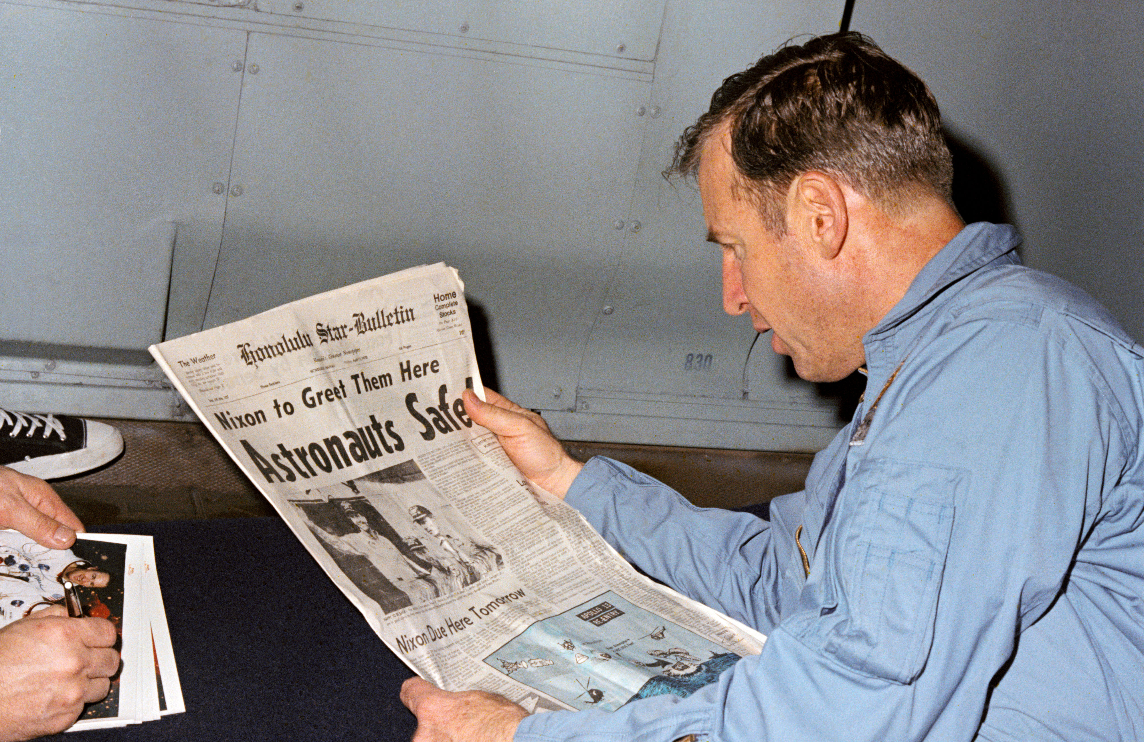 Astronaut James A. Lovell Jr., Apollo 13 mission commander, reads a newspaper account of the safe recovery of the problem plagued mission. Lovell is on board the U.S.S. Iwo Jima, prime recovery ship for Apollo 13, which was on a course headed for Pago Pago.